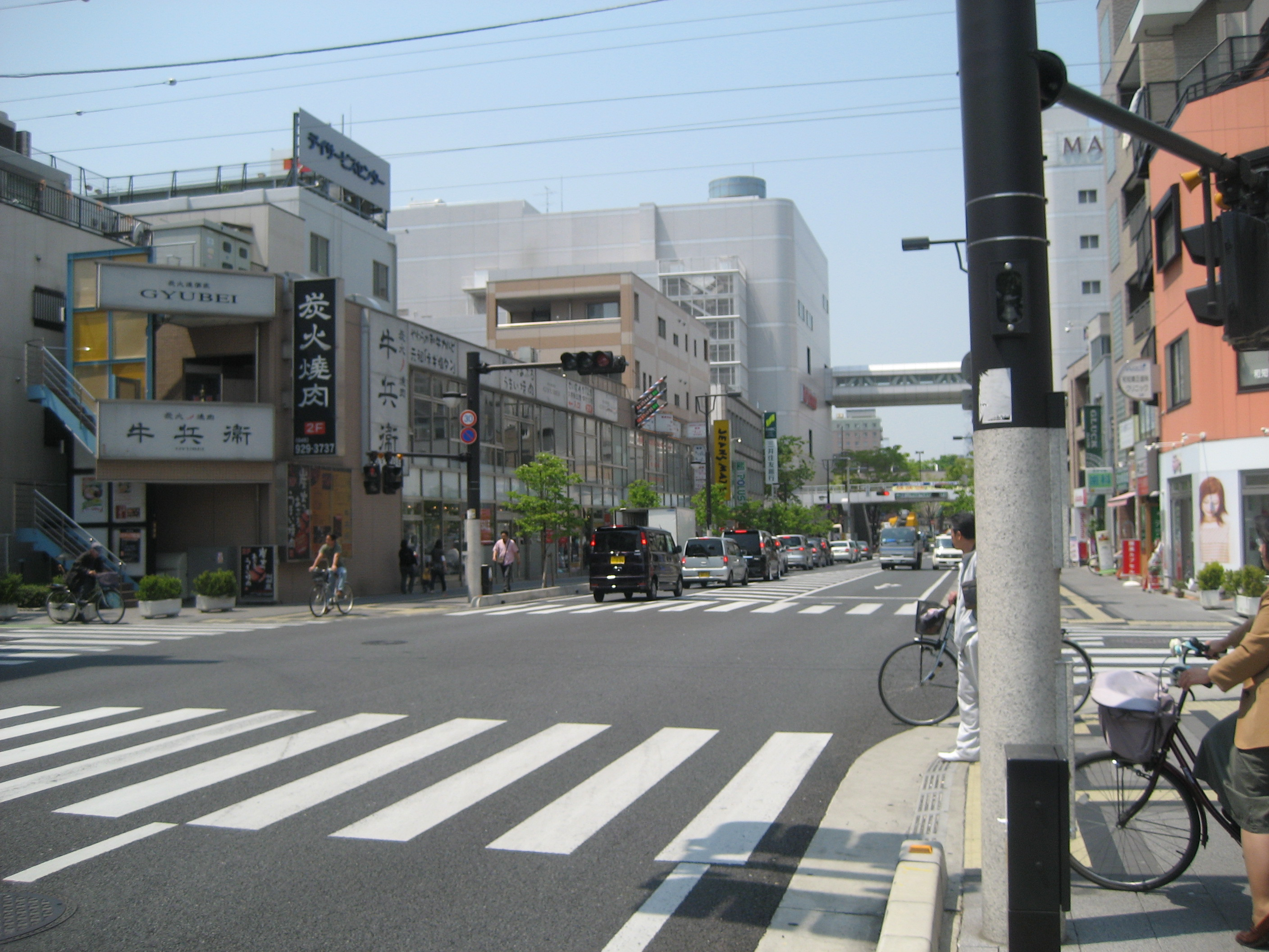 The Saitama Prefectural Road Route 402, view towards Soka Station